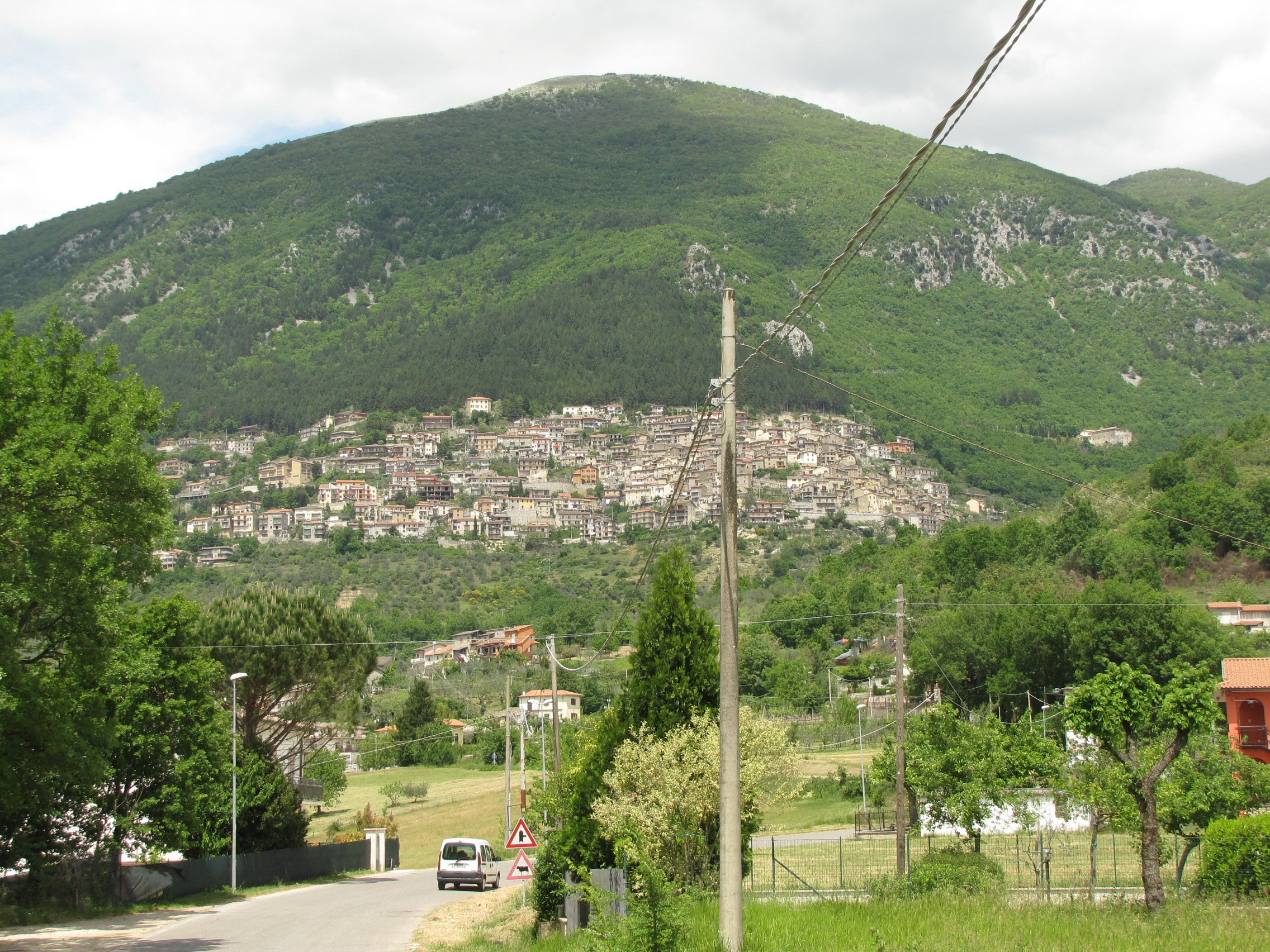 Poggio Bustone (Province of Rieti, Lazio, Italy)